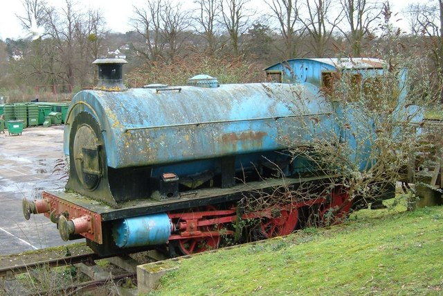 Preserved Locomotive. In this photograph she is located behind the Leatherhead Leisure Centre, this locomotive carried a plaque which reads: THE BIWATER EXPRESS Generously donated by the Biwater Group Limited of Dorking in 1985. Now in the possession of the Hawthorn Leslie 3837 Preservation Society she is now based at the Lavender Line, Isfield where she has been cosmetically restored whilst funds are raised to return her to steam. See or contact Saddle Tank, Hawthorn Leslie, Works No. 3837 Built in 1934 and employed at Corby Iron and Steel Works until 1969.